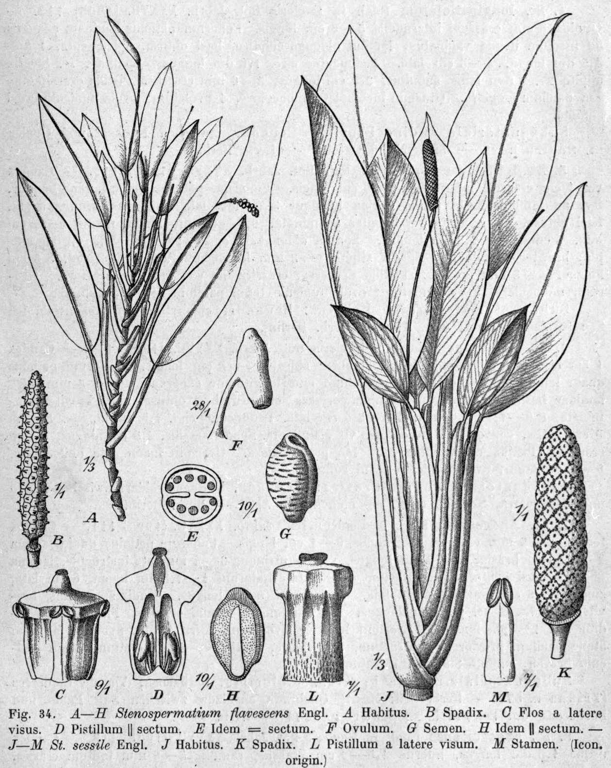 Stenospermation flavescens botanical drawing